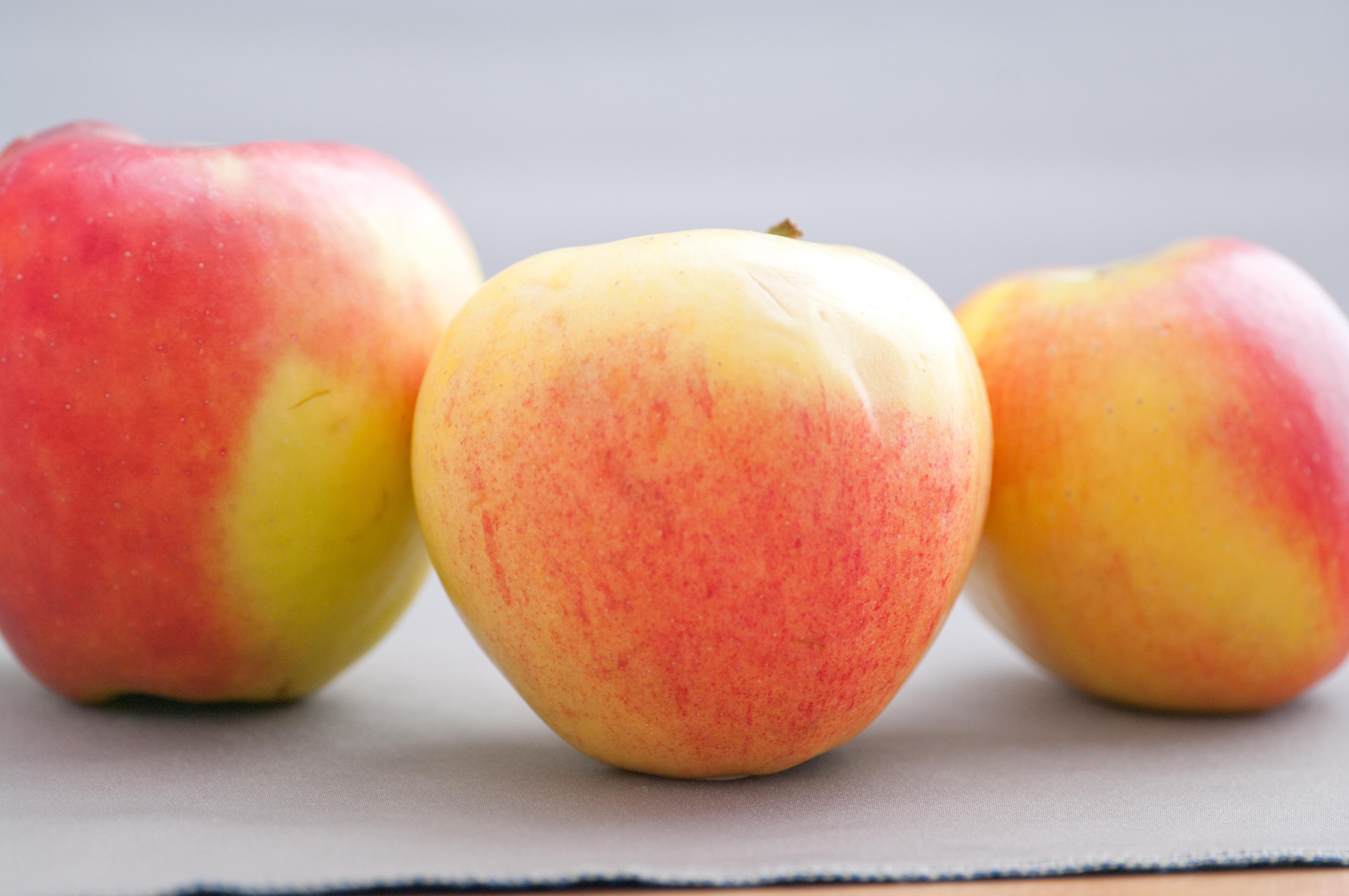 Gala apple and its offspring: Nicoter and scifresh.